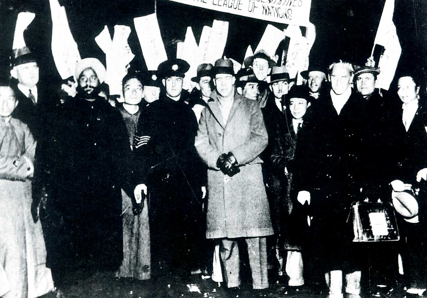 Lytton Commission arrives in Shanghai.